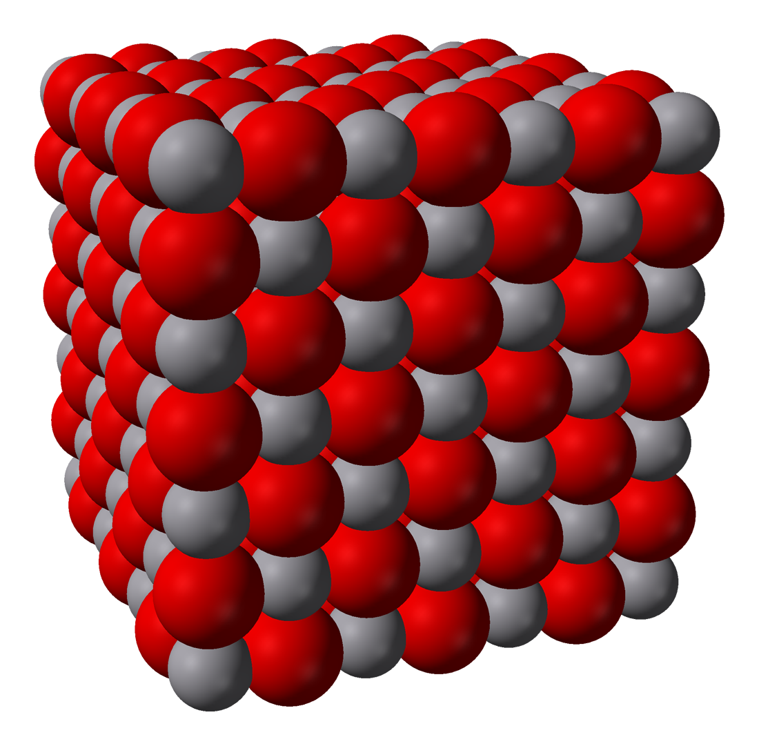 Space-filling model of part of the crystal structure of vanadium(II) oxide, VO. Crystal structure data from The American Mineralogist Crystal Structure Database.